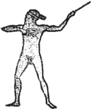 Greyscale outline rendering of the Marree Man geoglyph discovered in Central Australia in 1998.